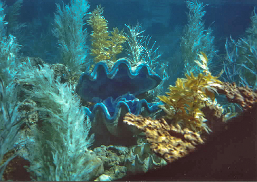 View from porthole of submarine in the Disneyland Submarine Voyage 1995